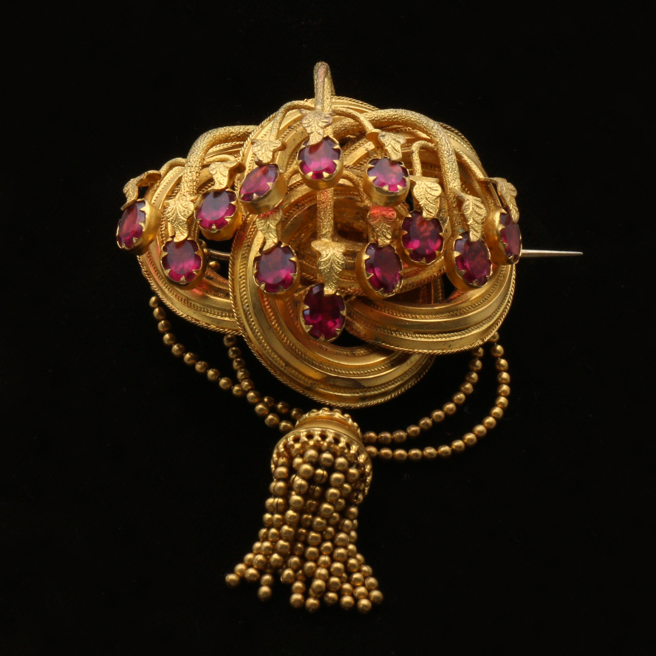 Victorian almandine garnet brooch